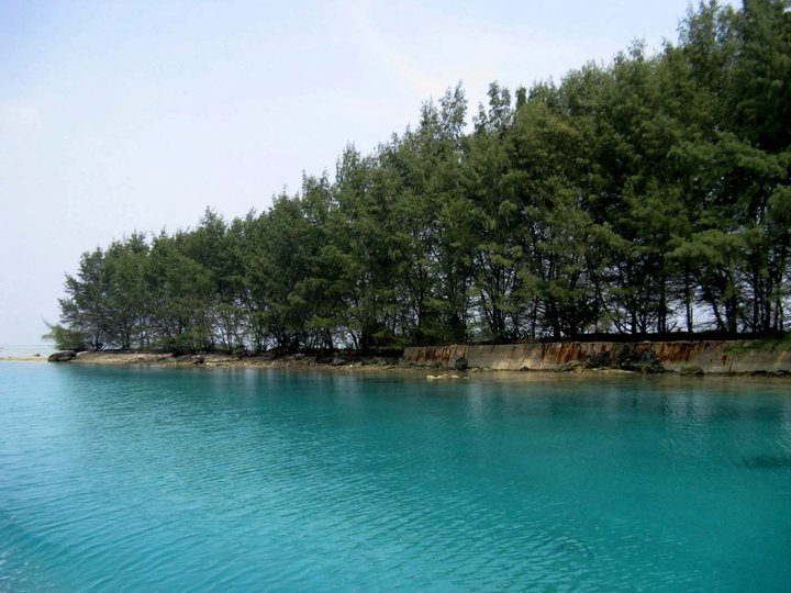 Kepulauan Seribu, DKI Jakarta, Indonesia